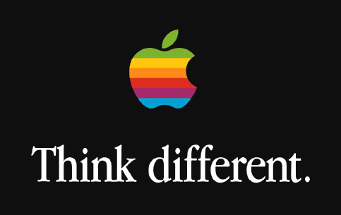 The Apple Computer slogan "Think Different." set in Apple Garamond. The rainbow apple logo was created by Rob Janoff in 1977.